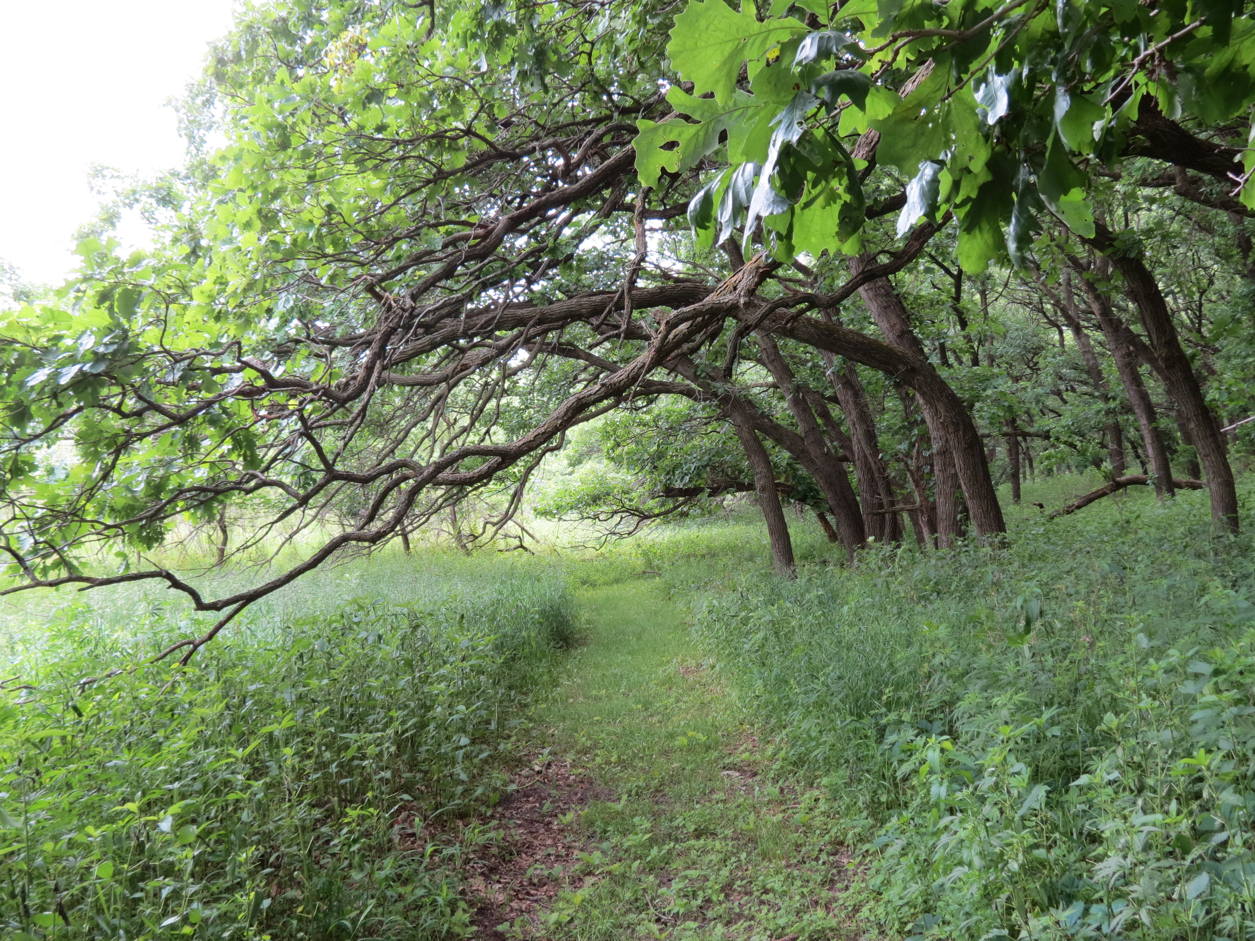 One of the trails available to the public at Olson Nature Preserve. Near the Oak tree grove.